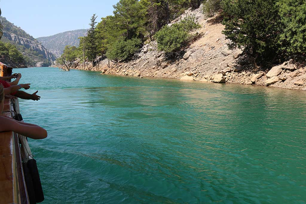 Oymapinar reservoir